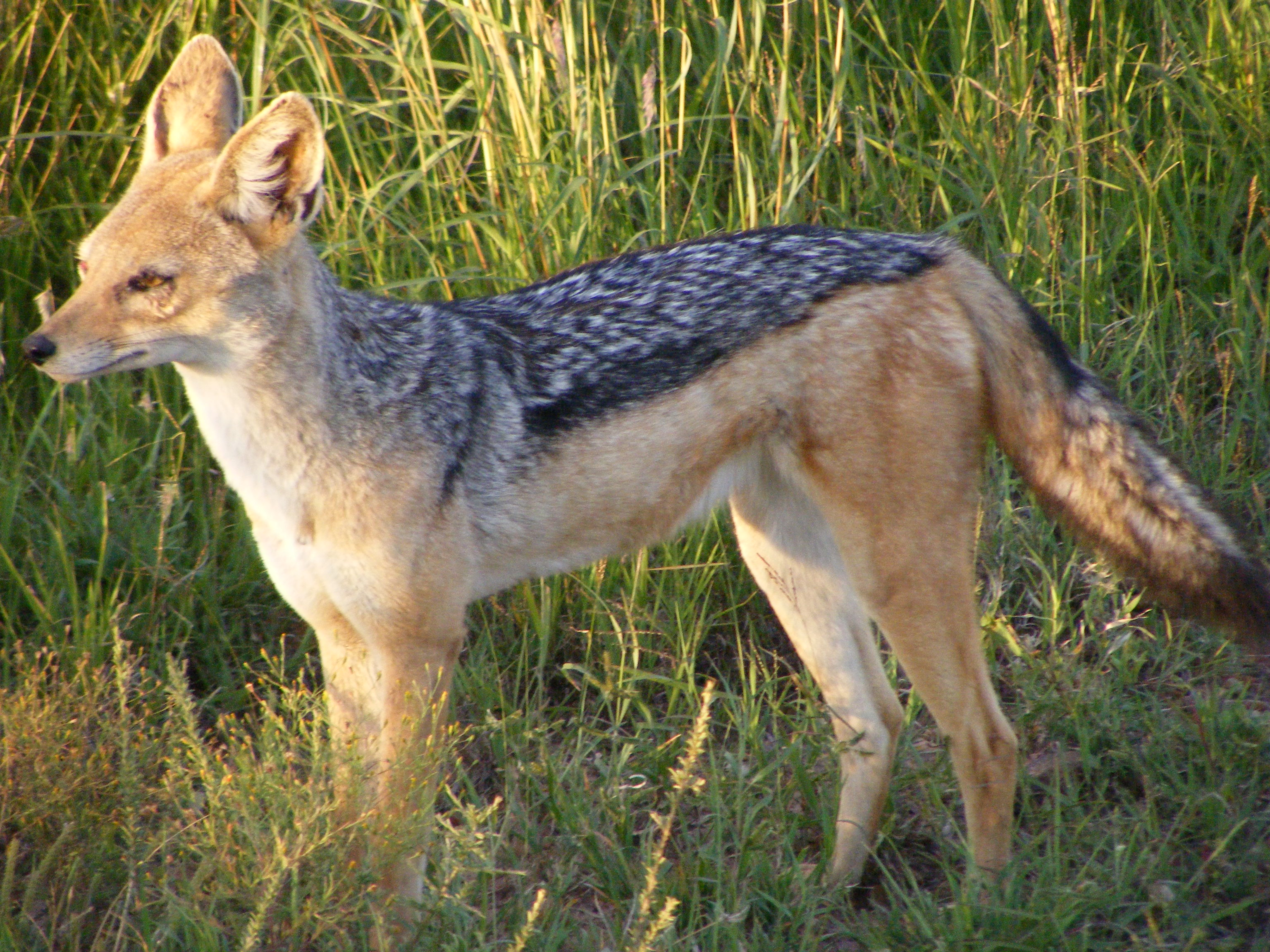 Black-backed Jackal in the Masaai Mara, Kenya